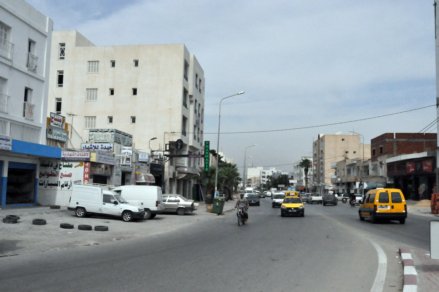 Street in the city